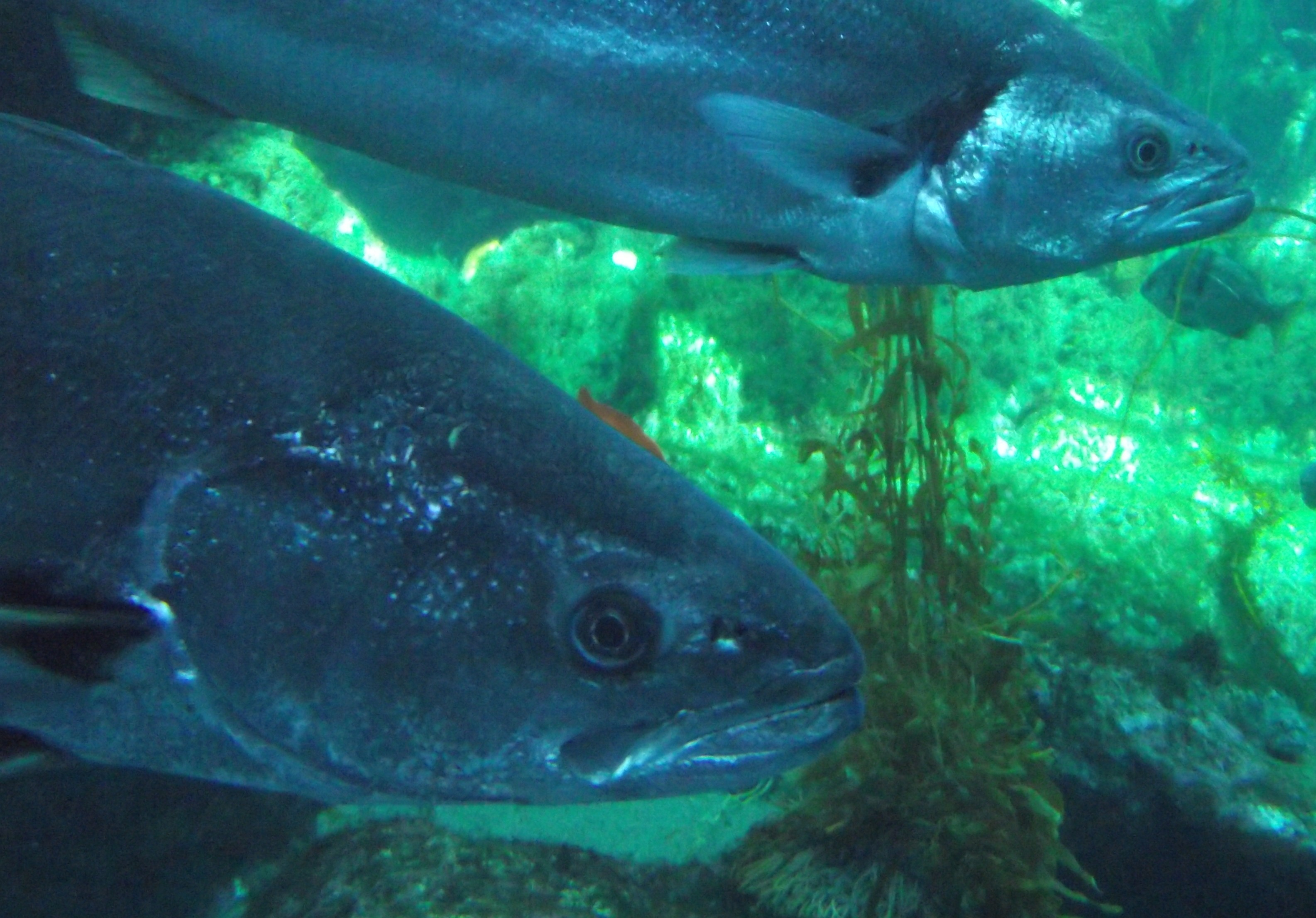 Atractoscion nobilis at the Birch Aquarium, San Diego, California, USA.